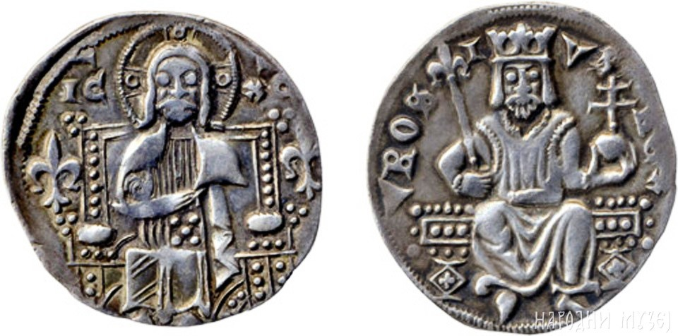 Novac kralja Milutina